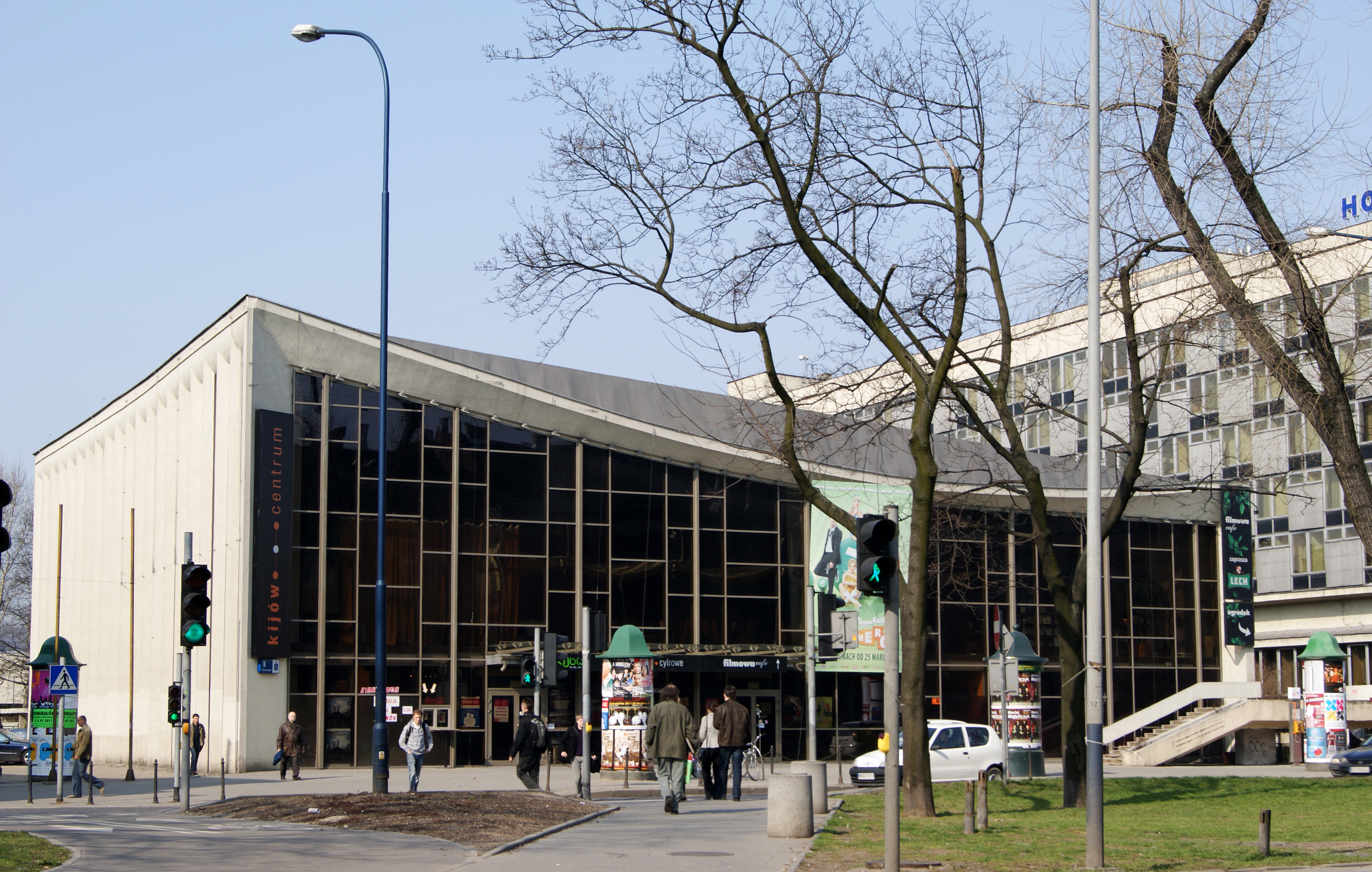 Kijow Centrum Cinema, 34 Krasinskiego Av, Krakow, Poland